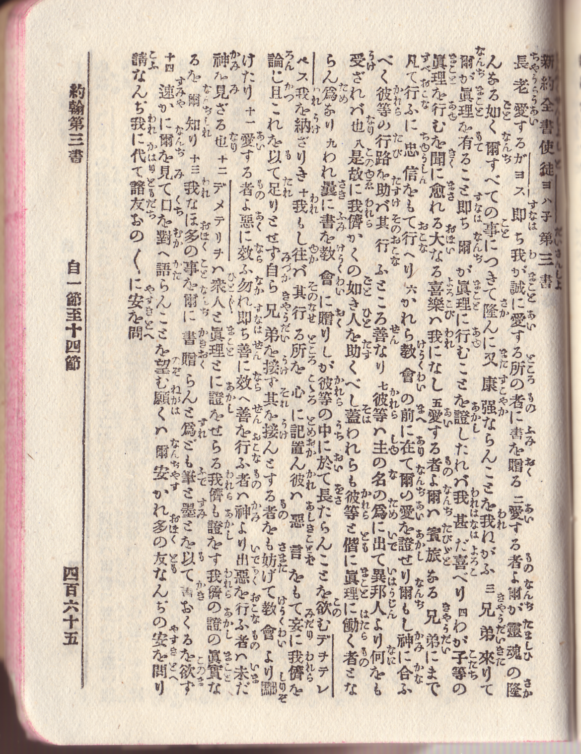 The New Testament - Japanese Version (Meiji-motoyaku), American Bible Society Japan Agency, 1904. 3John